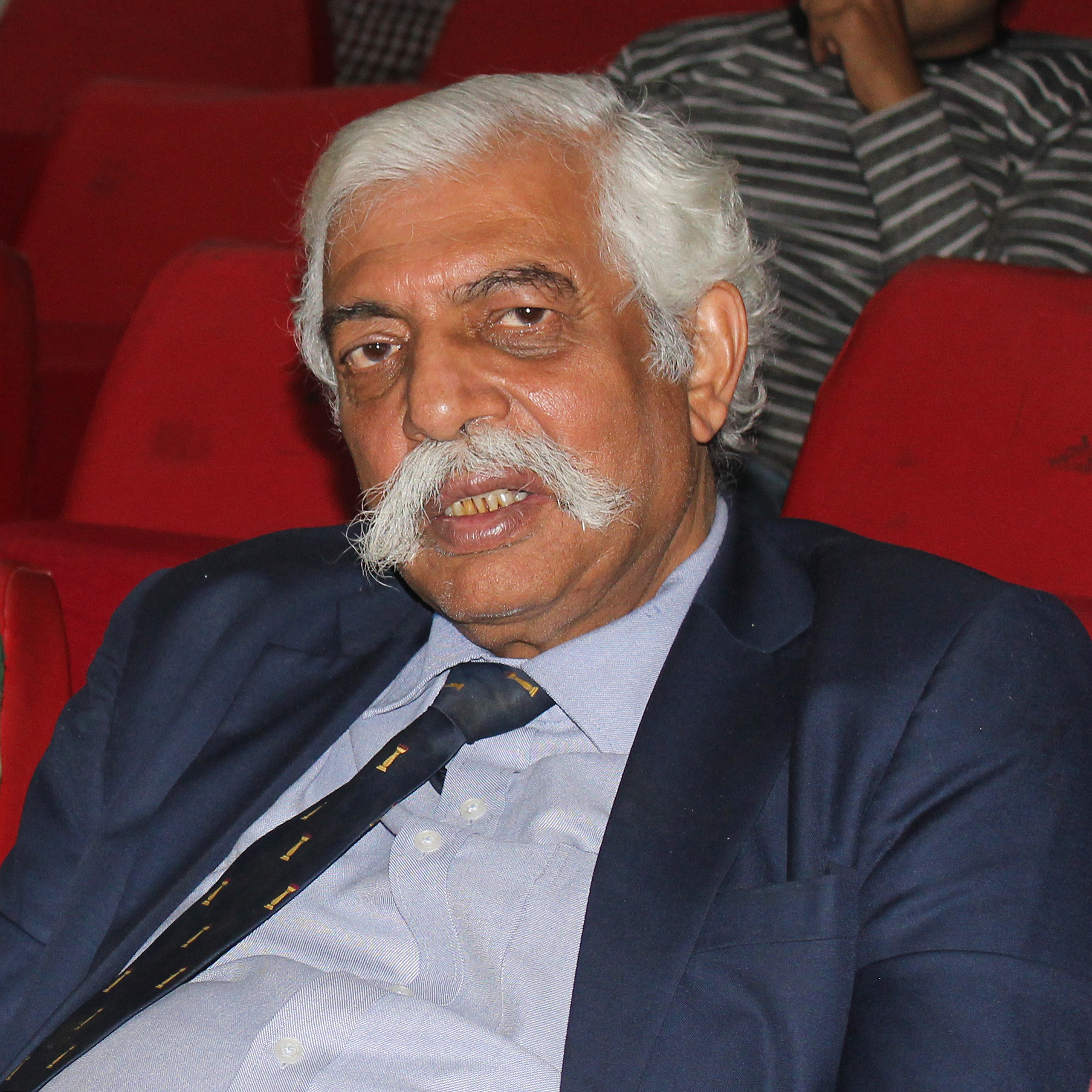 GD Bakshi during a National Seminar at Bhopal January 2018